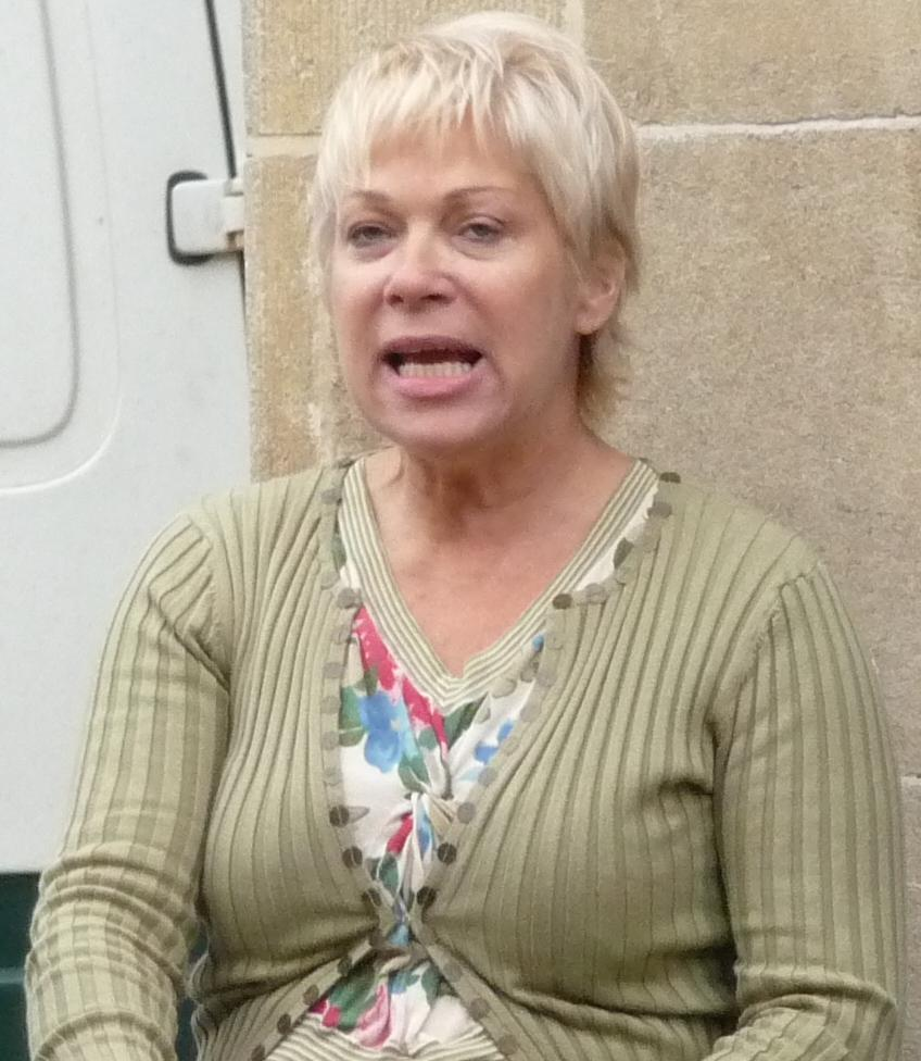 Denise Welch outside the London Studios on a break from filming Loose Women.